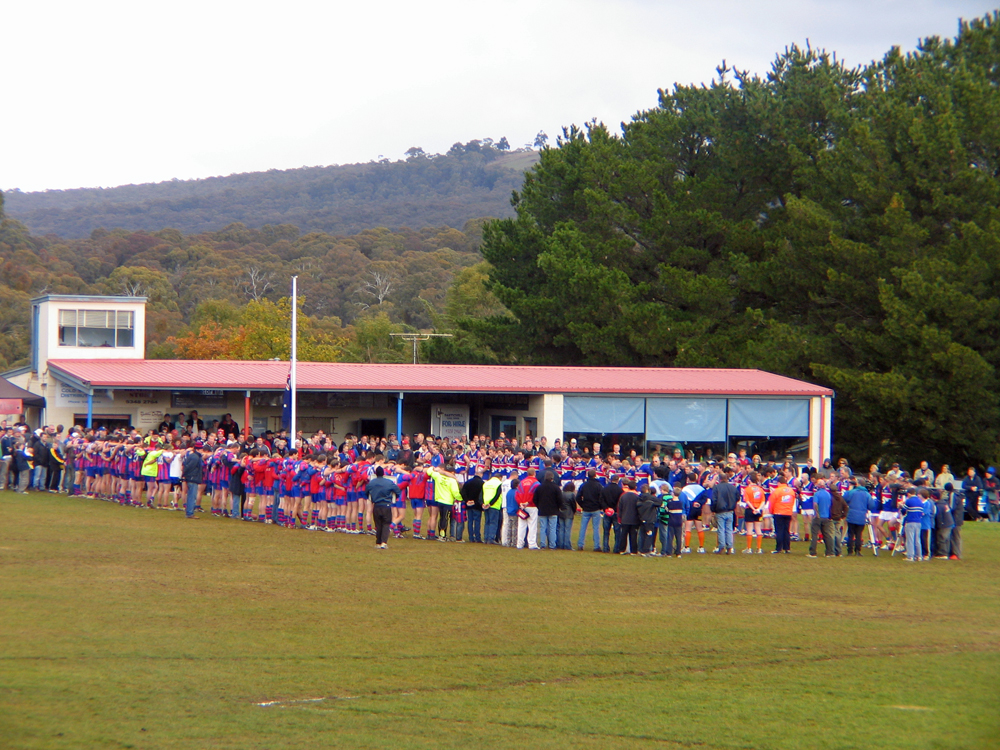 Guard of Honour for Laurie Sullivan at Laurie Sullivan Recreation Reserve